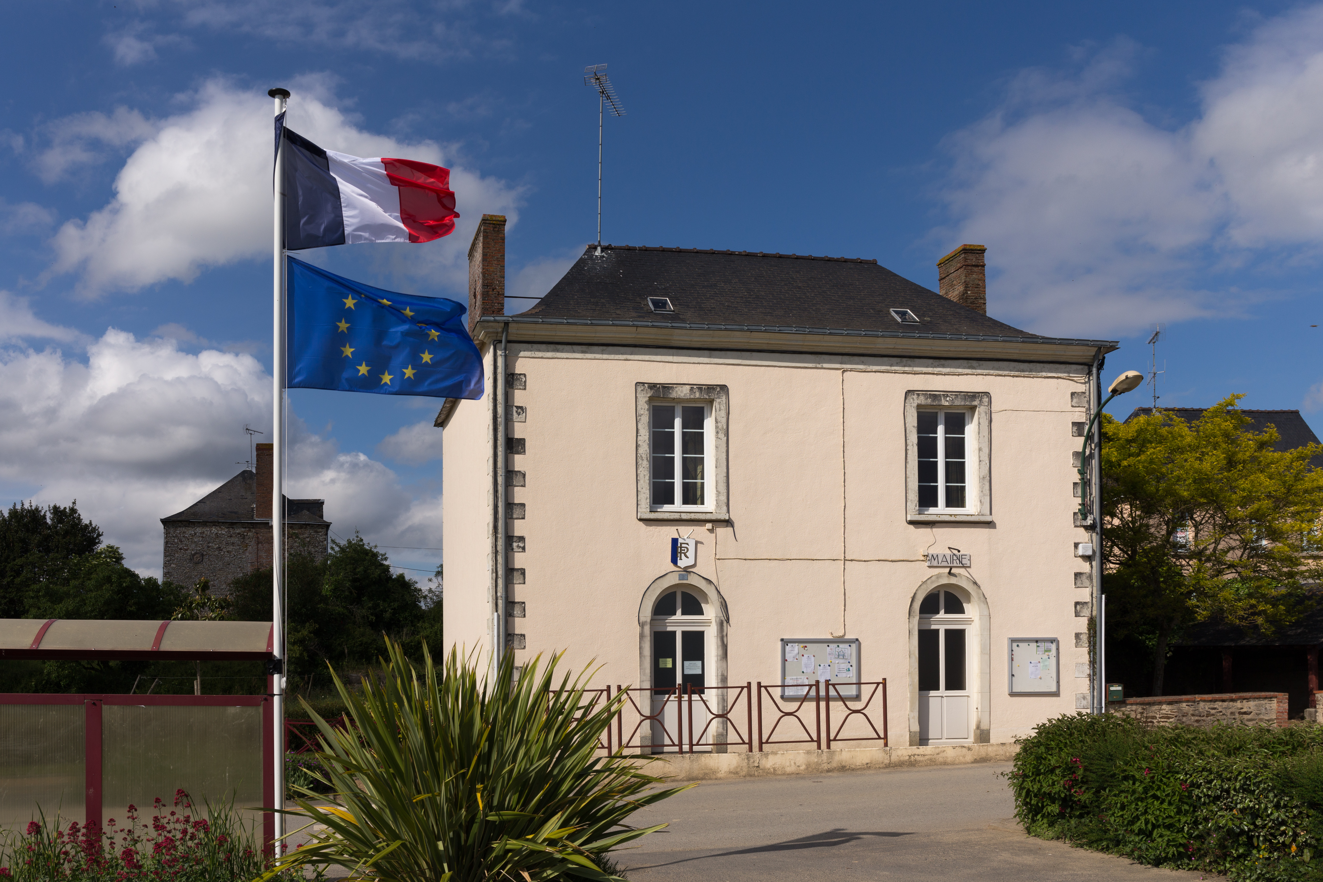 Town hall of Denazé.